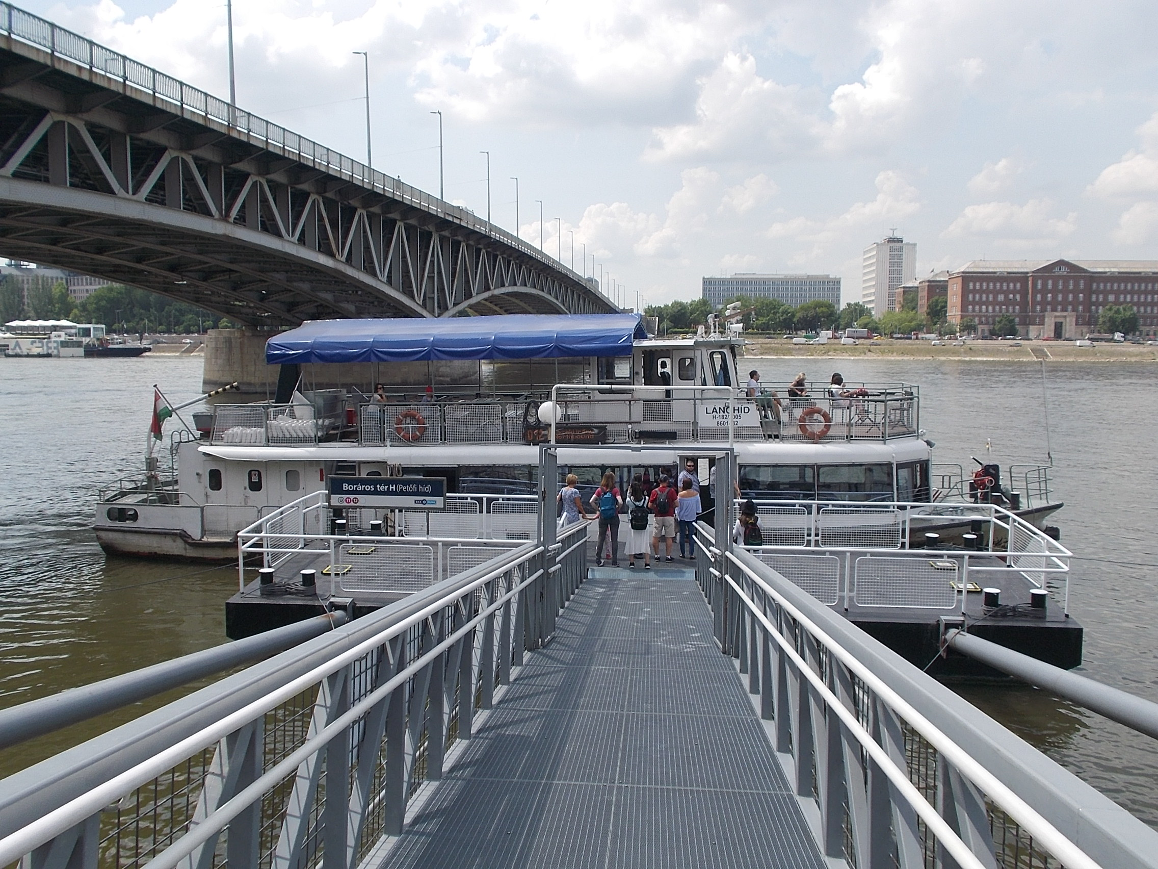 Lánchíd (ship, 1986) on route D12 at 'Boráros tér H (Petőfi híd)' ship stop in 9th district, opposite the Budapest University of Technology and Economics V2 and R building, Budapest.